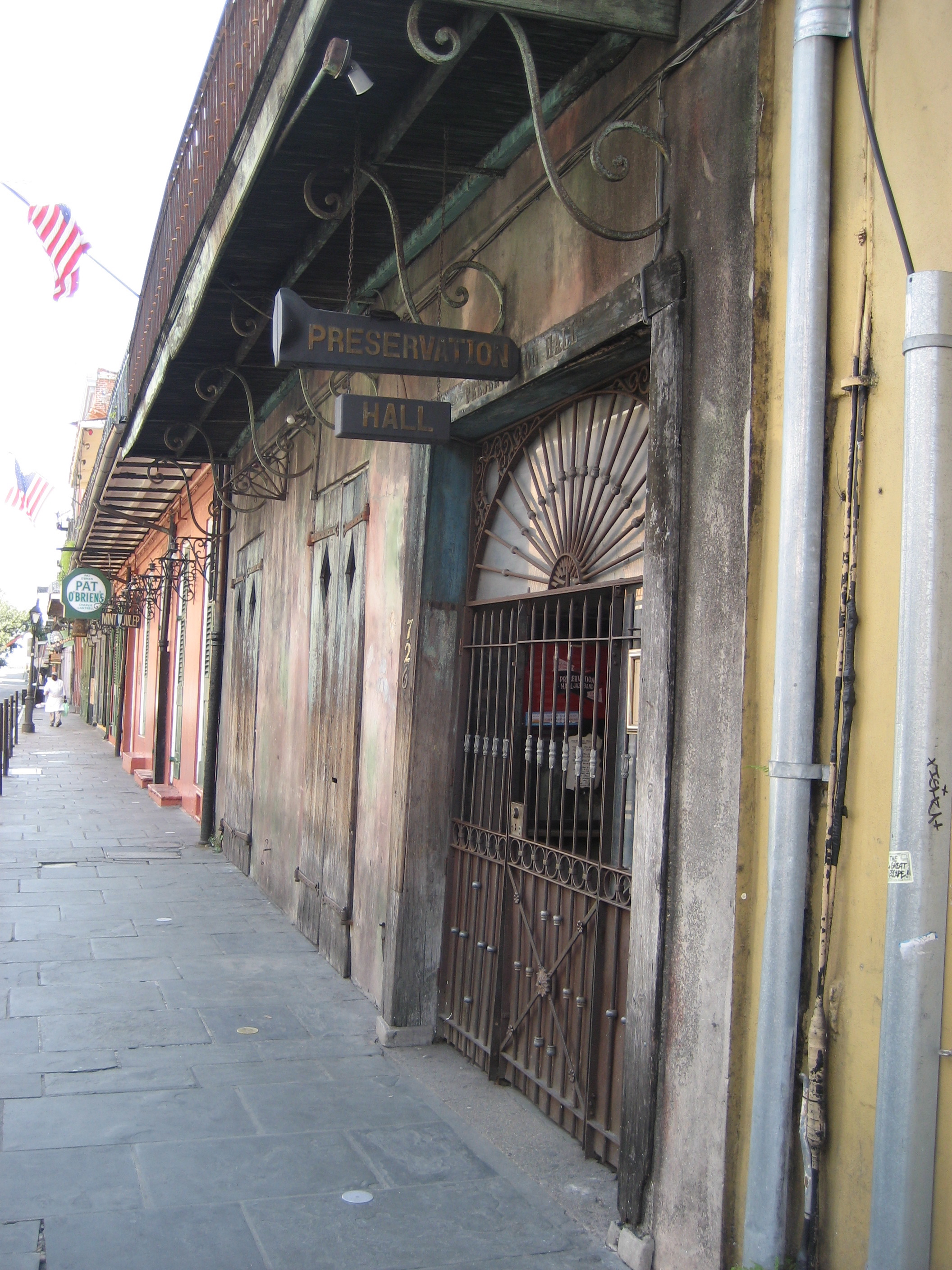 French Quarter, New Orleans, Louisiana, showing exteriors of Preservation Hall and Pat O'Brian's.